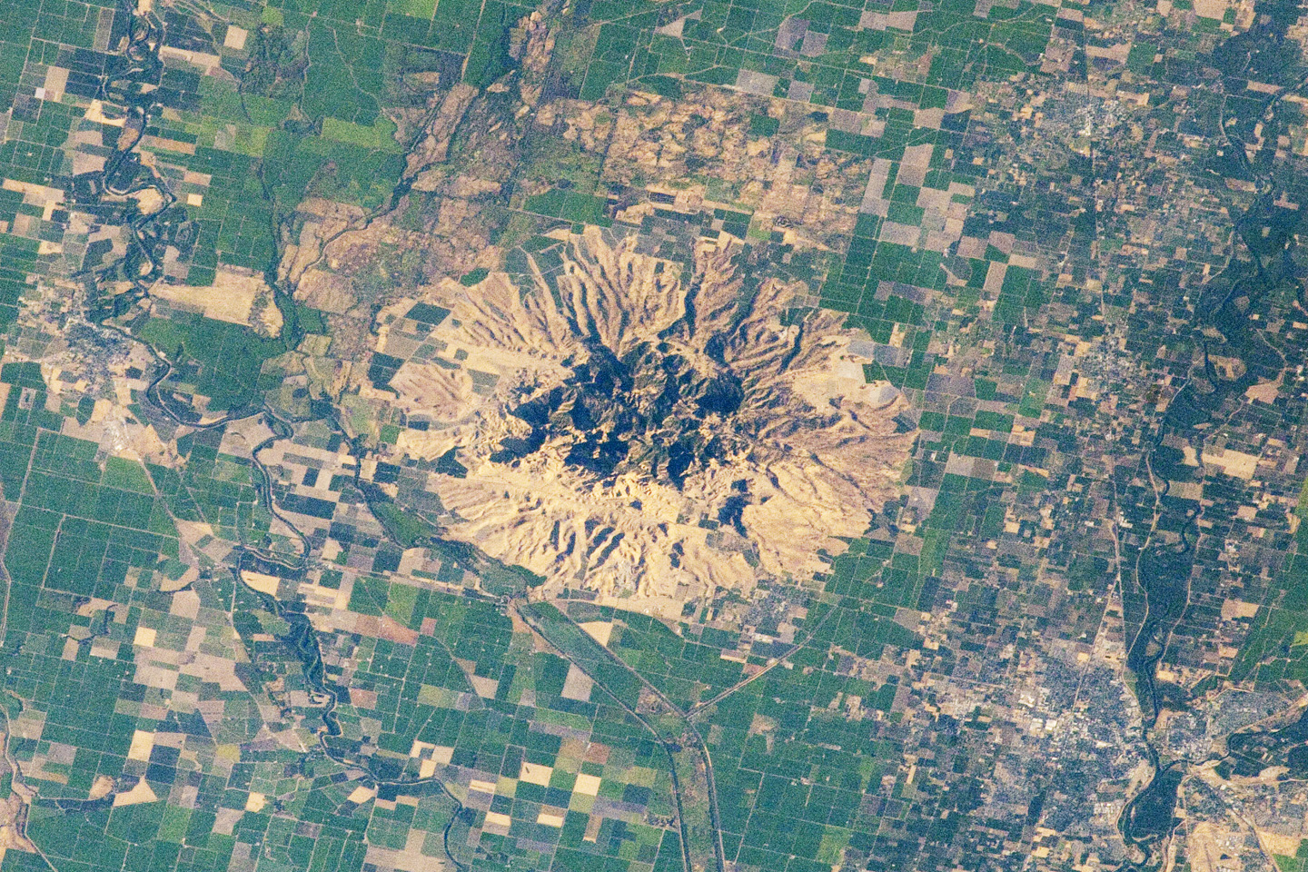 Sometimes called the “smallest mountain range in the world,” the Sutter Buttes rise almost 610 meters (2,000 feet) above the flat agricultural fields of the Great Valley of central California. The Sutter Buttes are remnants of a volcano that was active approximately 1.6 to 1.4 million years ago during the Pleistocene Epoch. The central core of the Buttes is characterized by lava domes—piles of viscous lava that erupted onto the surface and were built higher with each successive layer. Today, these lava domes form the high central hills of the Buttes; shadows cast by the hills are visible at image center. Surrounding the core is an apron of fragmental material created by occasional eruptions of the lava domes. This apron extends roughly 18 kilometers east-to-west and 16 kilometers north-to-south (11 by 10 miles). The volcanic material was transported outwards from the central core by volcanic gas-driven pyroclastic flows or by cooler, water-driven lahars. Later stream erosion of the debris apron is evident from the drainage pattern surrounding the central core. A third geomorphic region of valleys, known as the “moat,” lies between the core and the debris apron, and was formed by erosion of older, exposed sedimentary rocks that underlie the volcanic rocks.